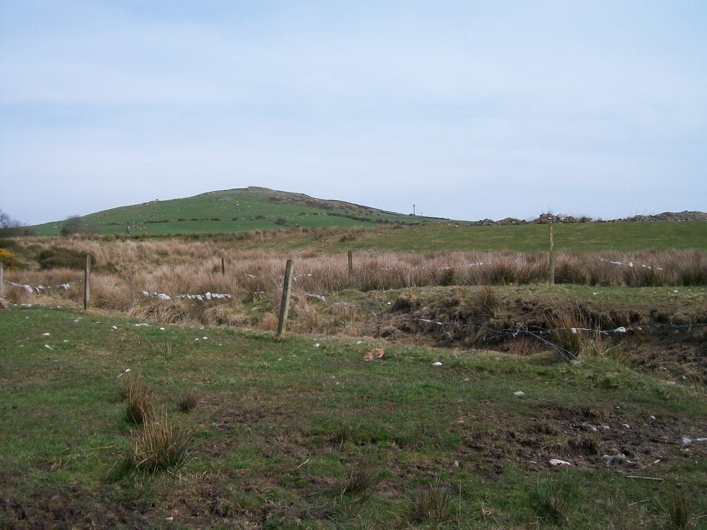 View eastwards in the direction of Carn Pentyrch hill